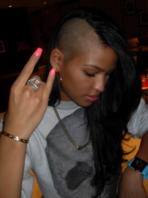 Cassie in 2009